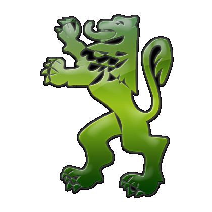 Old crest for Caragh, Co. Kildare.